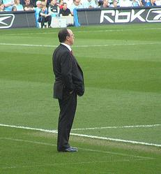 Image of Rafa Benítez, the manager of Liverpool FC